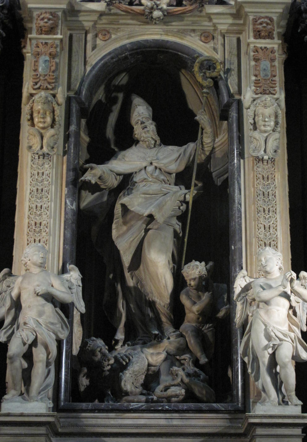 Statue of Saint Giovanni Bono by Elia Vincenzo Buzzi (1763), in the right-hand transept of the Cathedral in Milan